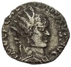 Regalianus. Silver antoninianus, obverse, Carnuntum mint, 260 AD. IMP C P C REGALIANVS AVG, radiate and draped bust right